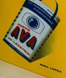 The Italian AVA detergent, famous for its association with the animated Calimero character.